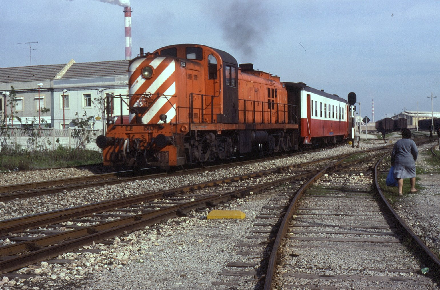 Seen on the approaches to Barreiro, 1503 was caught on camera on a local service on 30 November 1990.